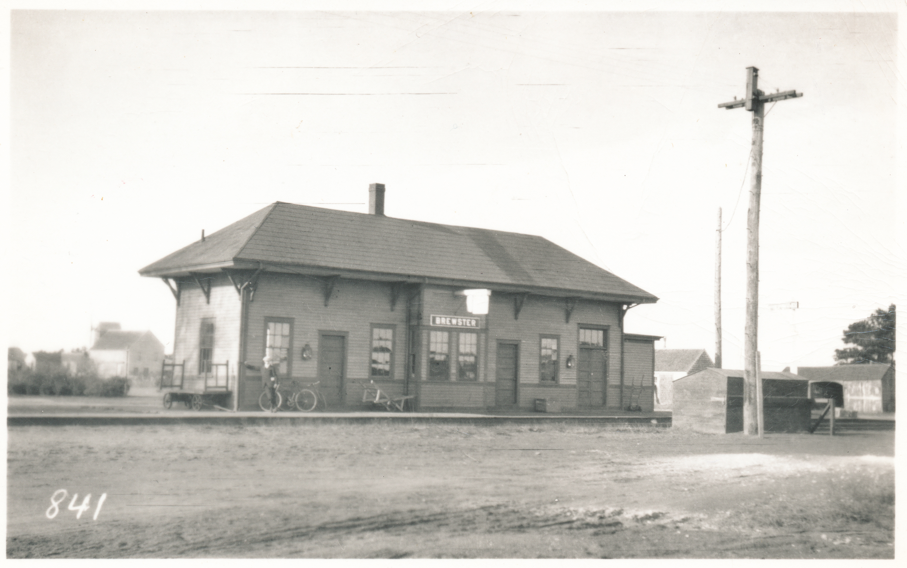 An early postcard showing the former Brewster, Massachusetts train station on Cape Cod. ca. 1920s.